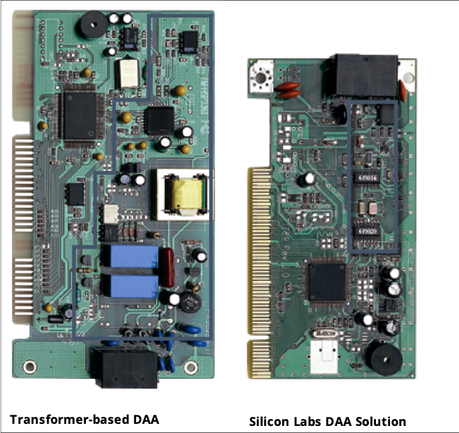 Silicon Labs direct access arrangement (DAA) ICs use a capacitive isolation approach for voice telephony applications instead of a bulky and costly isolation transformer.